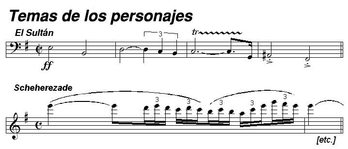 Opening 2 notated themes from Rimsky-Korsakov's Scheherazade.